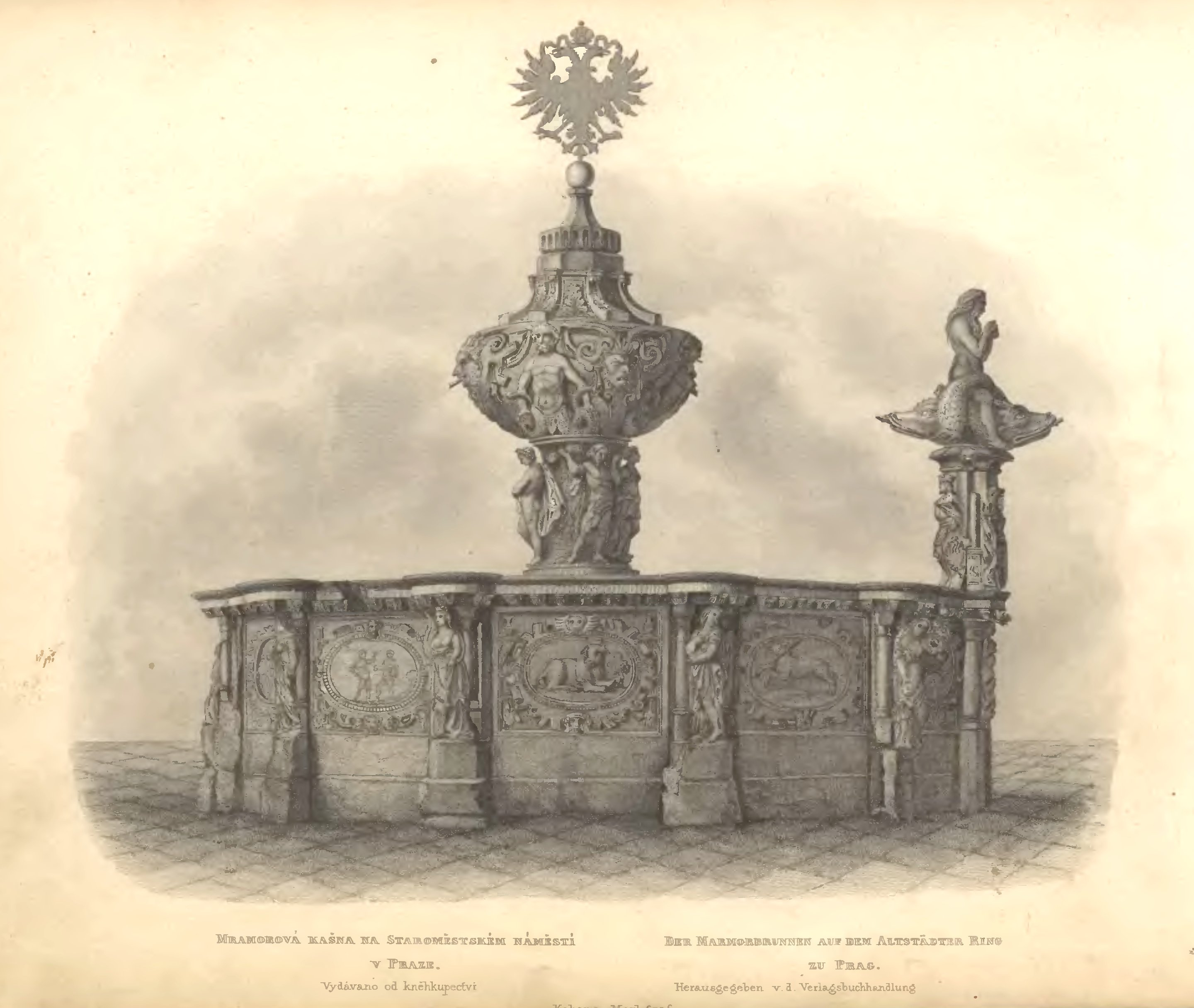 Krocínova kašna (Krocín´s Public Fountain) in Prague (present-day Czech Republic) in 1850s or early 1860s. It was dismantled in 1862.